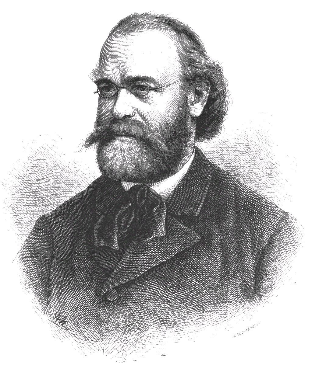 Adolf Neumann (1825-1884), German painter, etcher and engraver